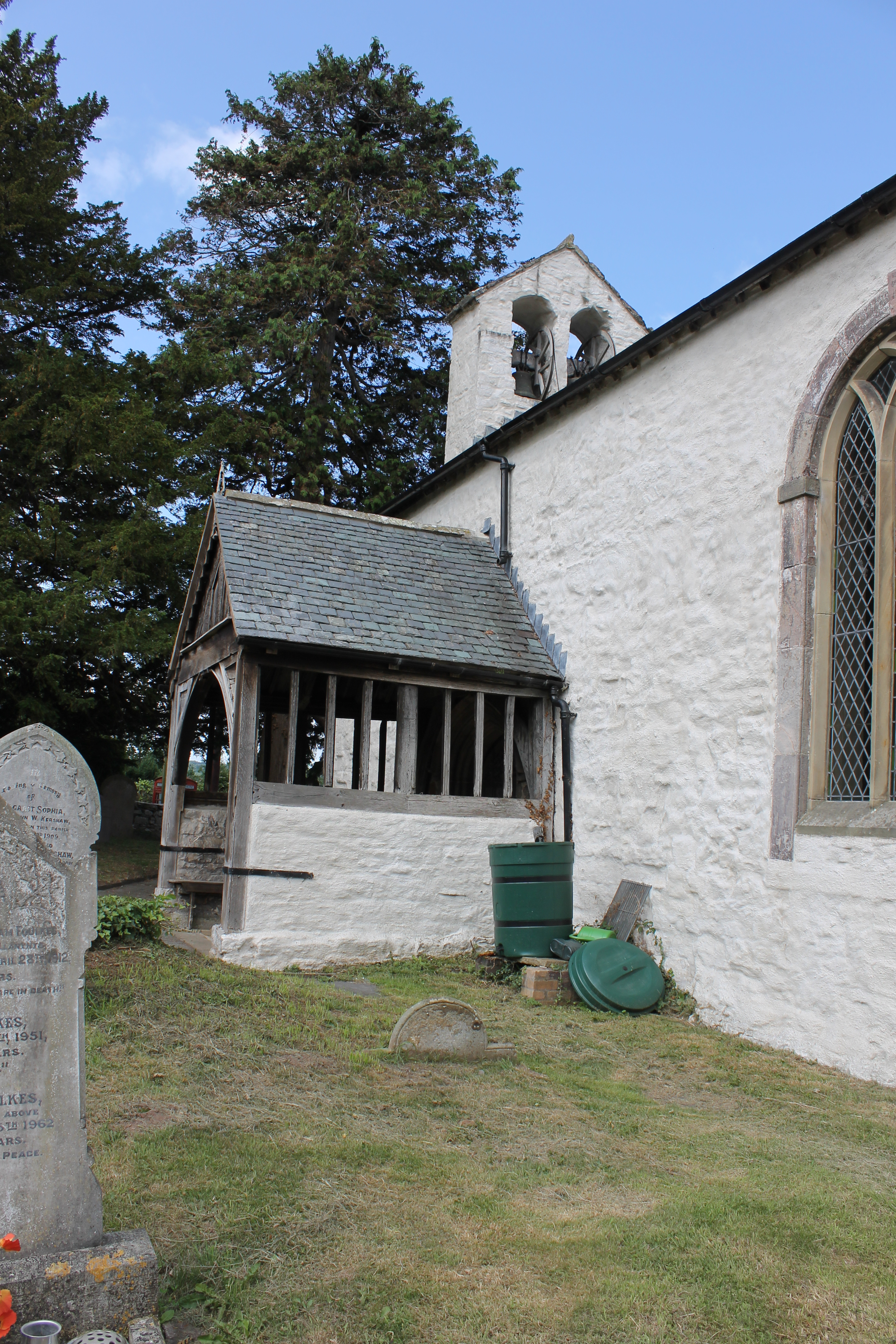 St. Saeran's church, Llanynys, Denbighshire, North Wales is a Grade 1 listed building. In 2015 a £4.5 million project came to an end, preserving this church.